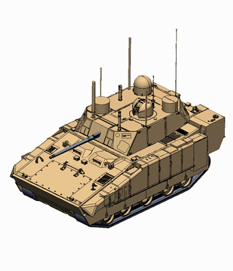 US Army graphic depicting ICV